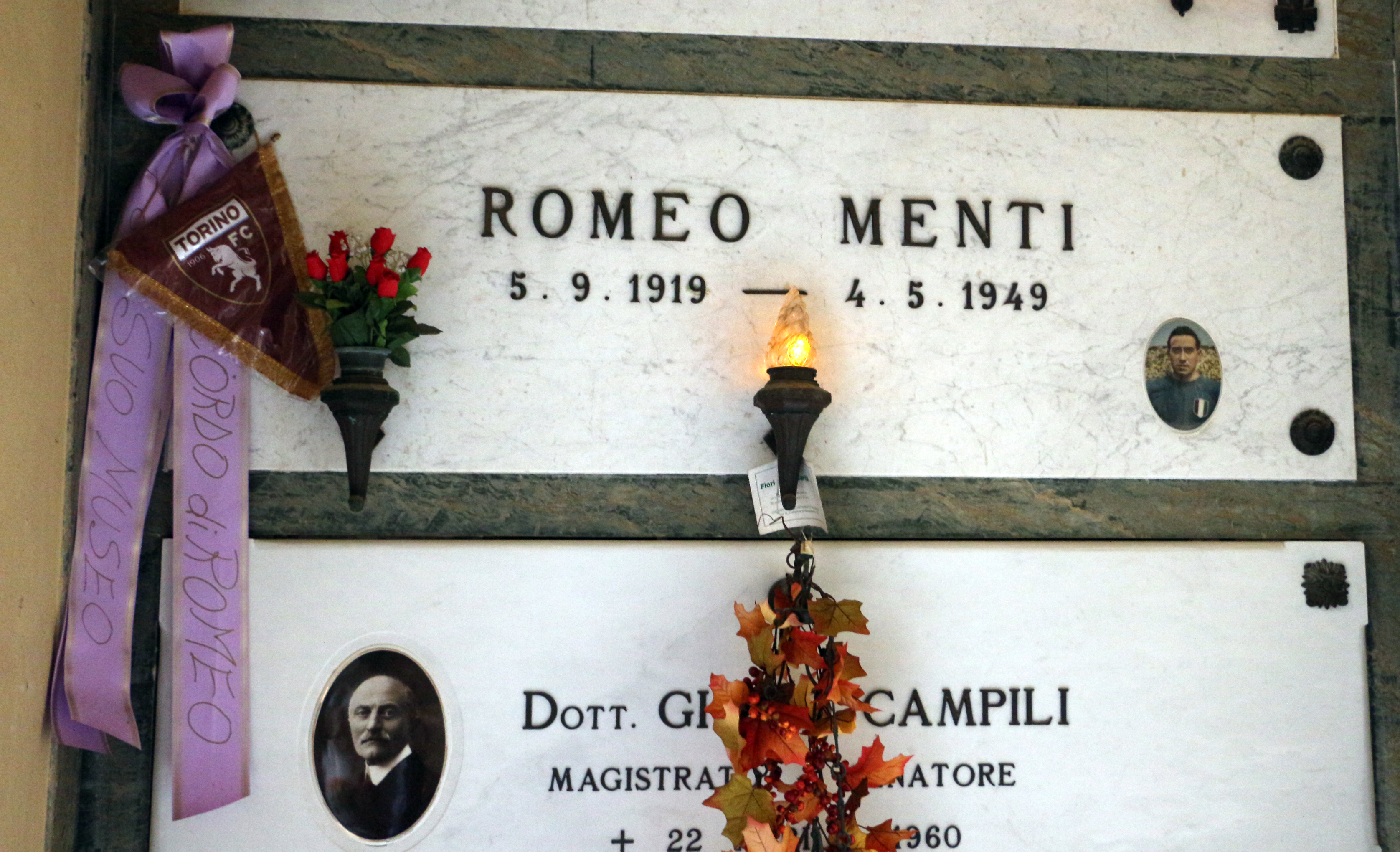 Cimitero Monumentale della Misericordia (Antella)